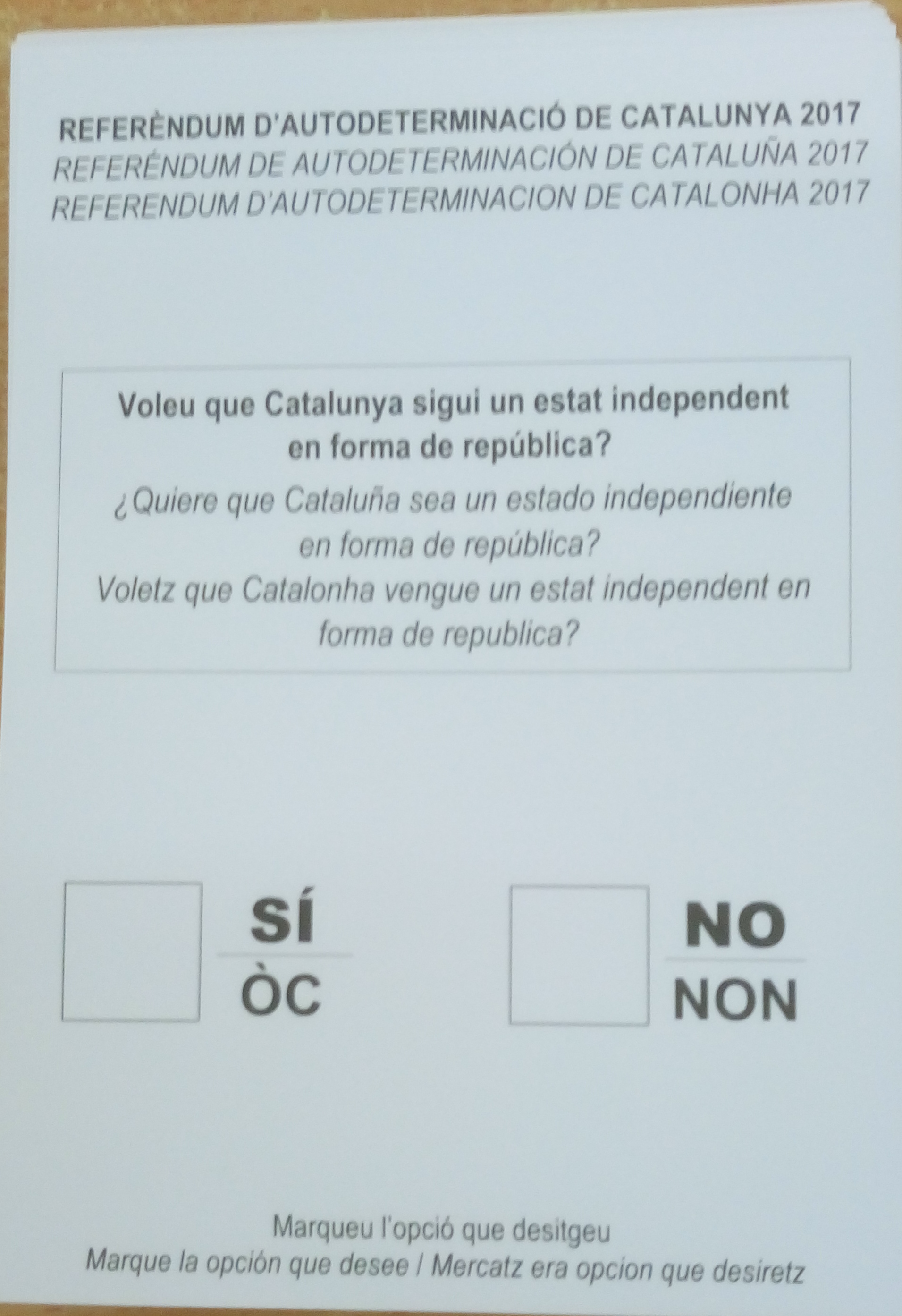 Ballot center in Terrassa